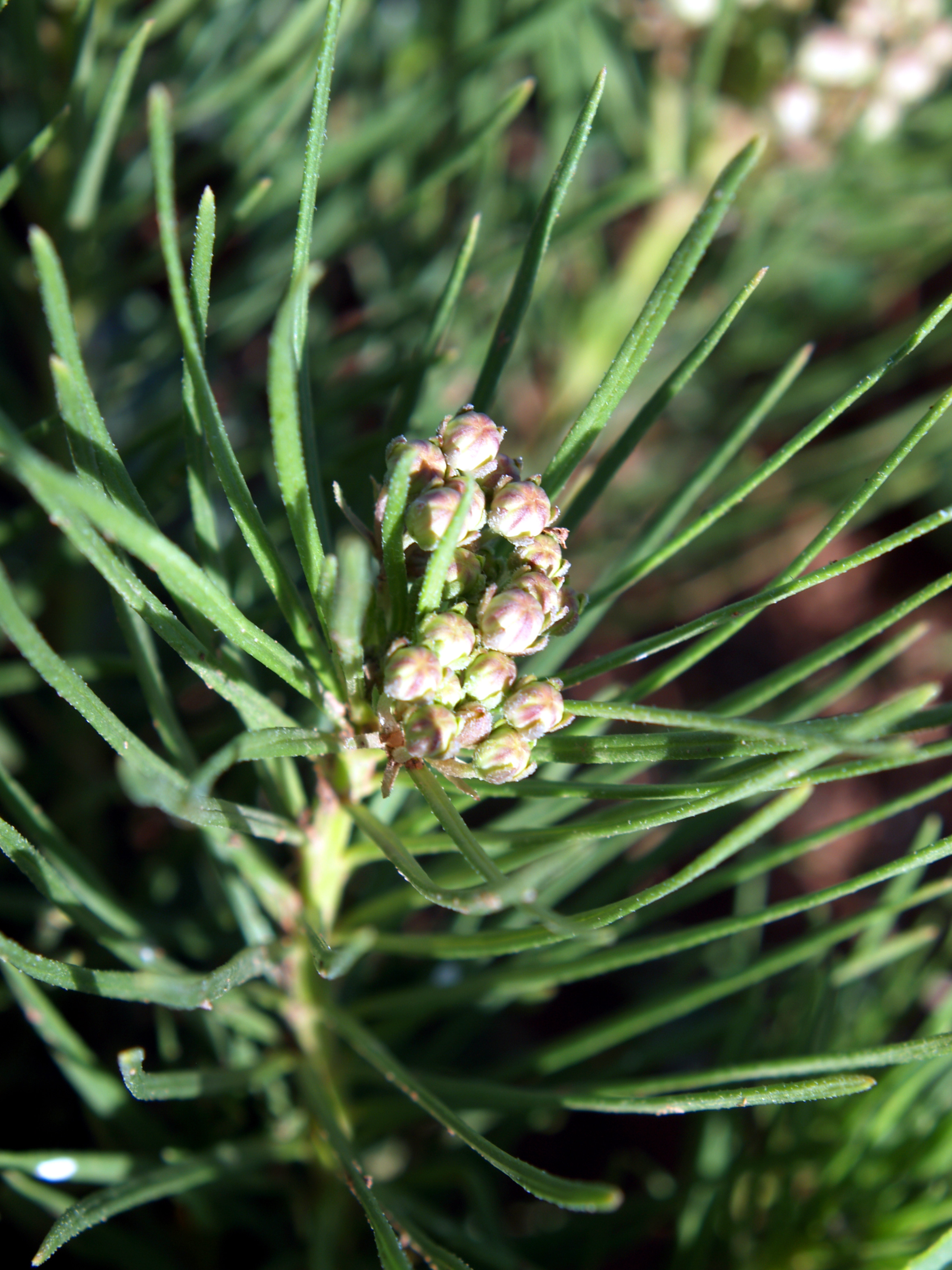 Asclepias pumila at Wind Cave National Park, South Dakota, USA